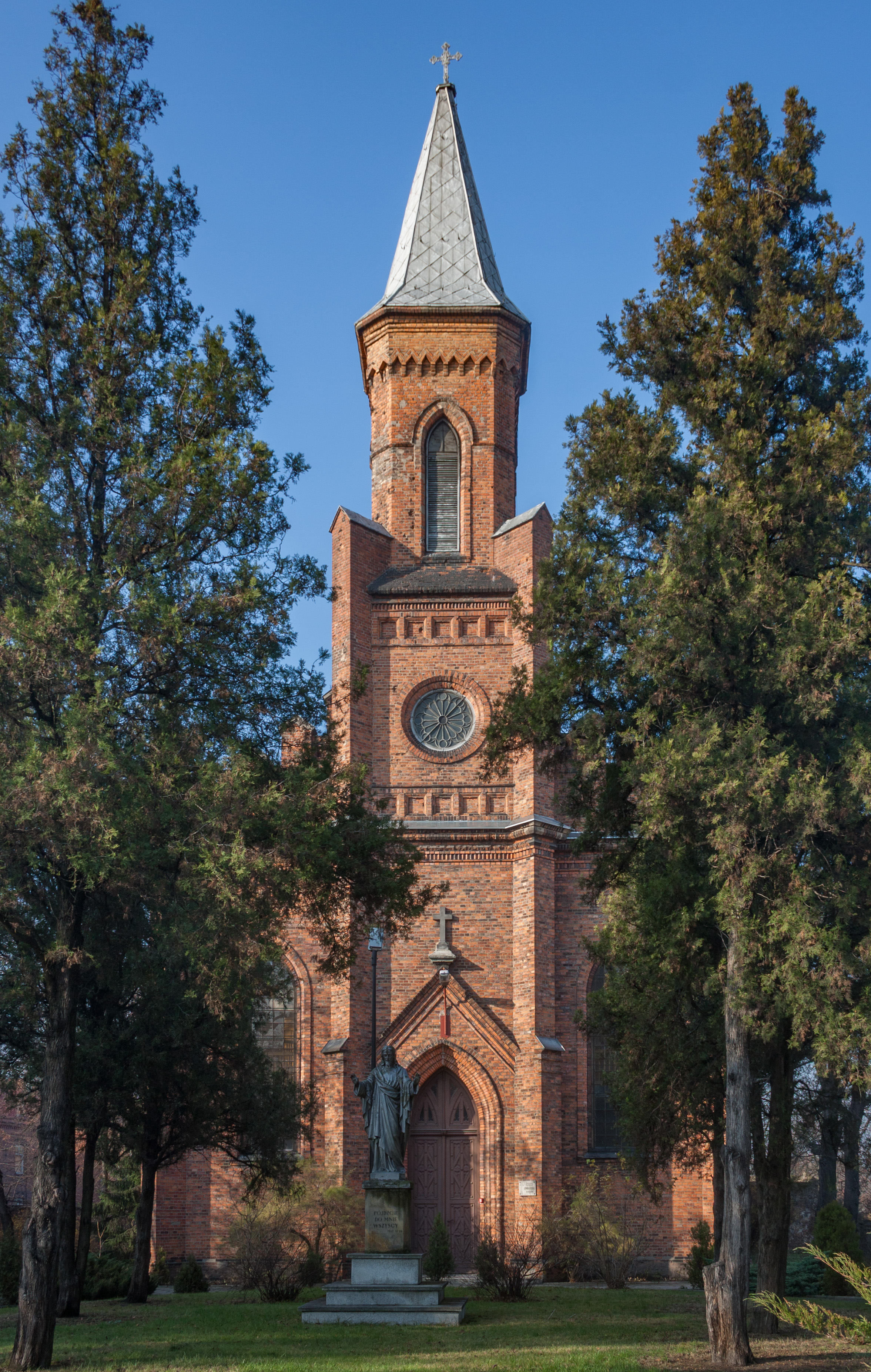 Włocławek, protestant church at Brzeska Str.